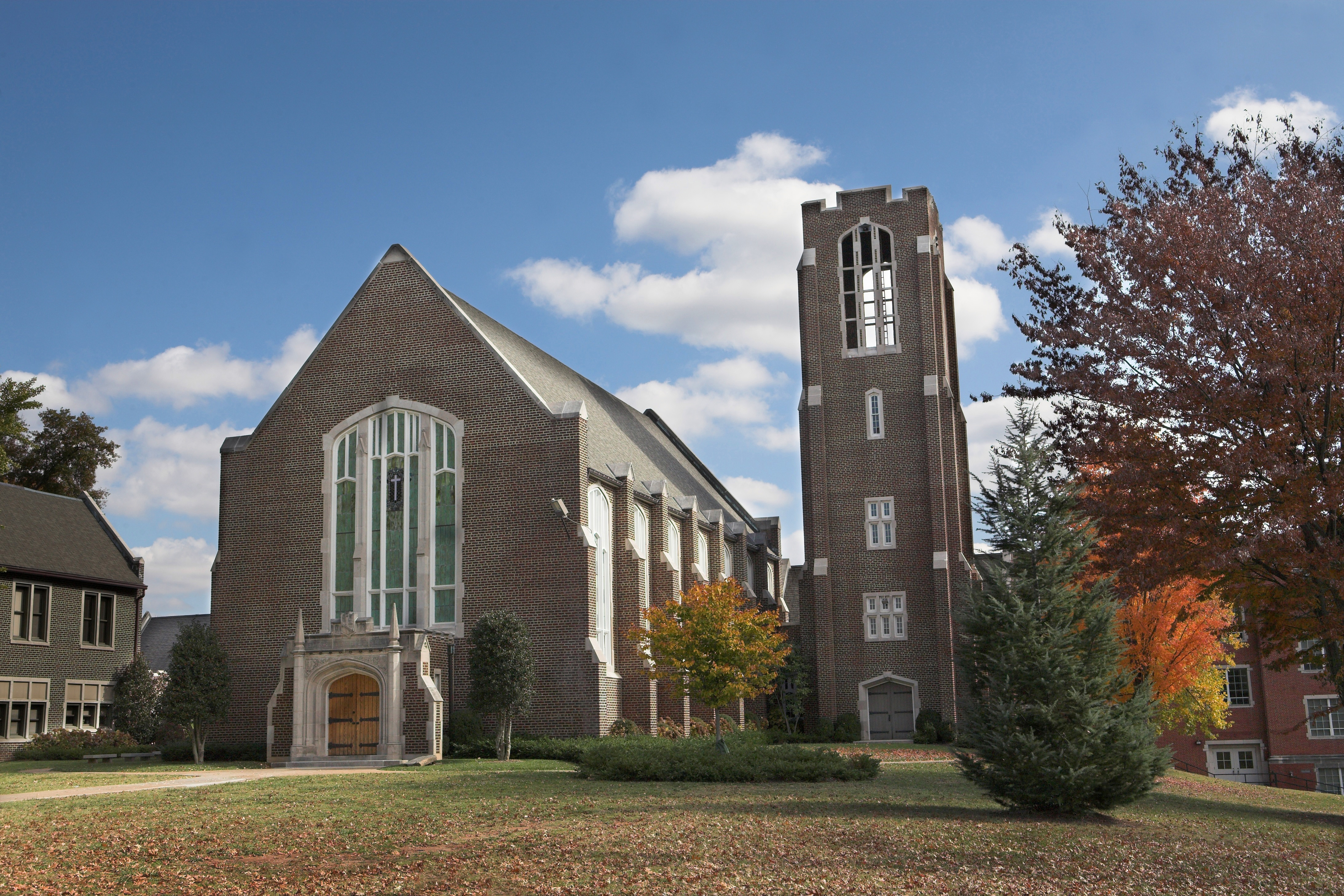 Patten Chapel University of Tennessee in Chattanooga.